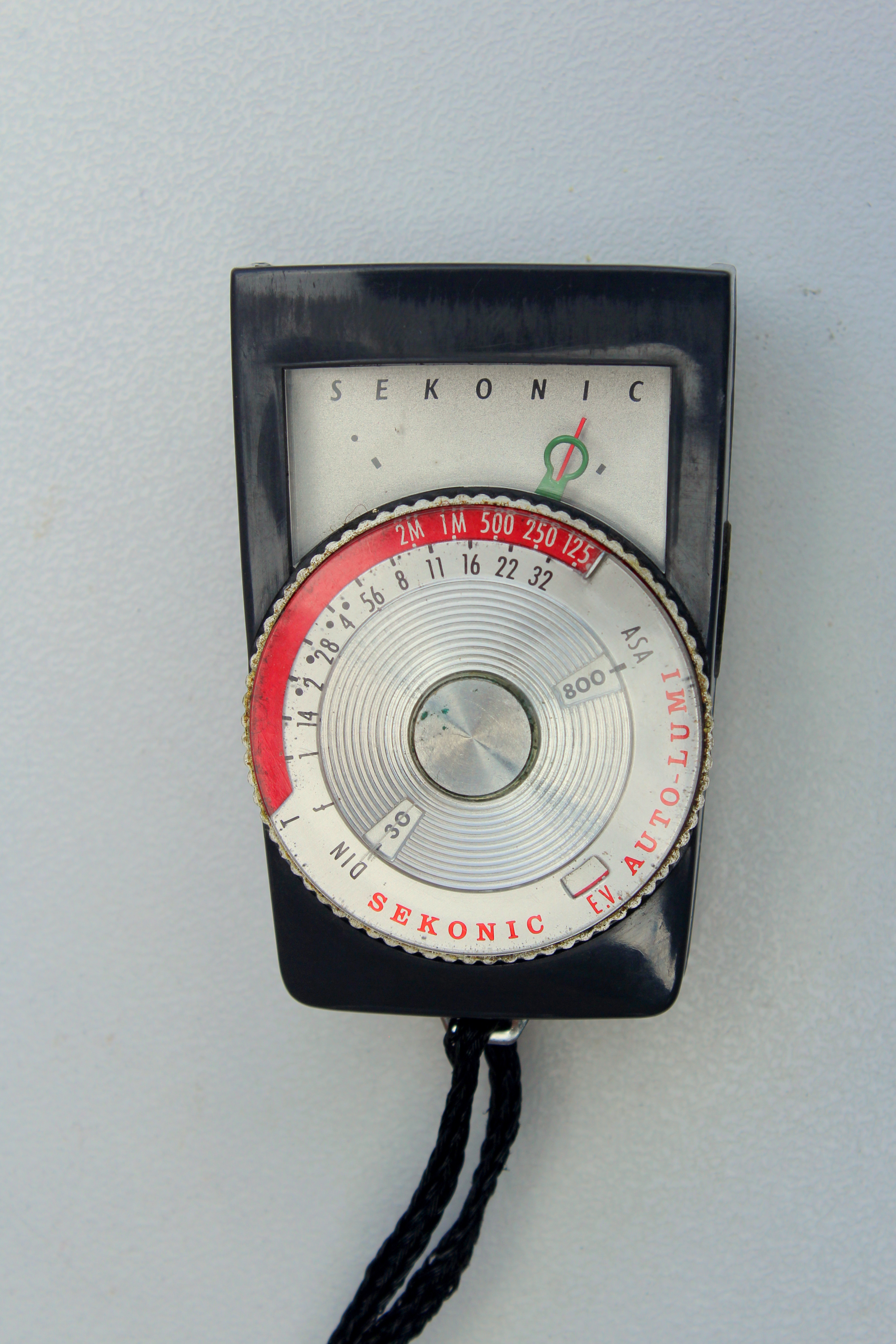 Sekonic Auto Lumi lightmeter (c 1970) during the second phase of taking a light reading. The thumb-wheel is rotated until the green pointer and the red needle coincide. Appropriate values of camera timings and lens "f" stops can now be read from the red and white dials. The photographers makes the final choice and transfers the settings to the camera.